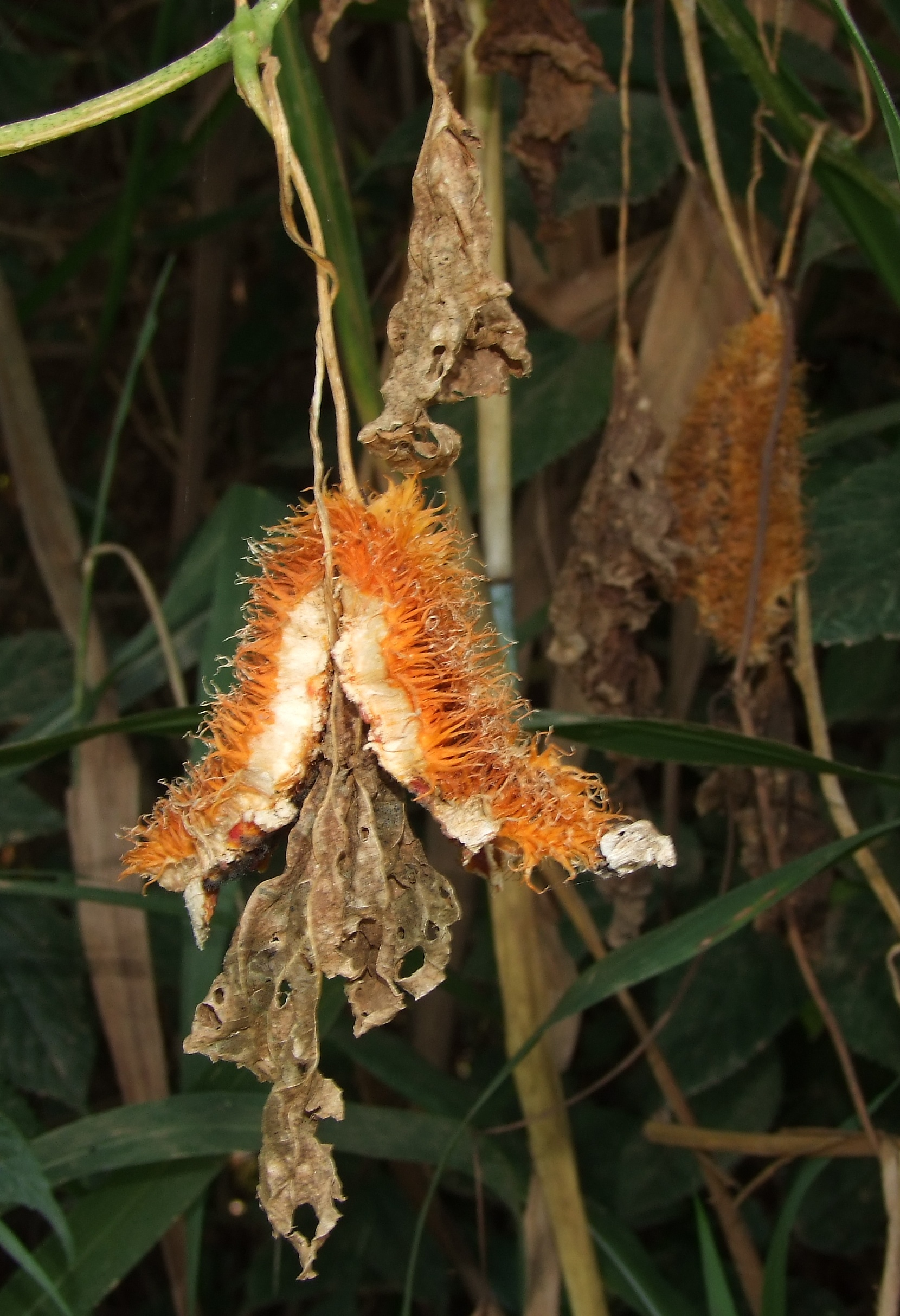 remains of a ripe fruit of Momordica foetida Schumach. taken SSW of Morogoro City, Tanzania